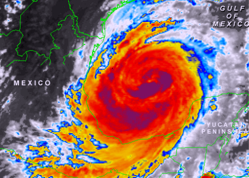 Hurricane Gilbert, 1988, over the Gulf of Mexico, north of the Bay of Campeche.